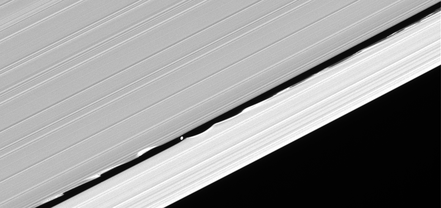 Uploader's notes: the original NASA image has been modified by stretching by a factor of 2 in both dimensions, sharpening and converting from TIFF to JPEG format. Original caption released with image: Daphnis drifts through the Keeler gap, at the center of its entourage of waves. The little moon (7 kilometers, or 4.3 miles across) draws material in the Keeler gap (42 kilometers, or 26 miles wide) into these now familiar edge waves as it orbits Saturn. This view looks toward the lit side of the rings from about 25 degrees below the ringplane. The image was taken in visible light with the Cassini spacecraft narrow-angle camera on Oct. 27, 2006 at a distance of approximately 325,000 kilometers (202,000 miles) from Daphnis and at a Sun-Daphnis-spacecraft, or phase, angle of 36 degrees. Image scale is 2 kilometers (1 mile) per pixel. The Cassini-Huygens mission is a cooperative project of NASA, the European Space Agency and the Italian Space Agency. The Jet Propulsion Laboratory, a division of the California Institute of Technology in Pasadena, manages the mission for NASA's Science Mission Directorate, Washington, D.C. The Cassini orbiter and its two onboard cameras were designed, developed and assembled at JPL. The imaging operations center is based at the Space Science Institute in Boulder, Colo. For more information about the Cassini-Huygens mission visit The Cassini imaging team homepage is at